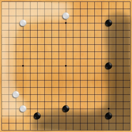 An example of game opening. Black got a moyo on the right side and white on the left one.